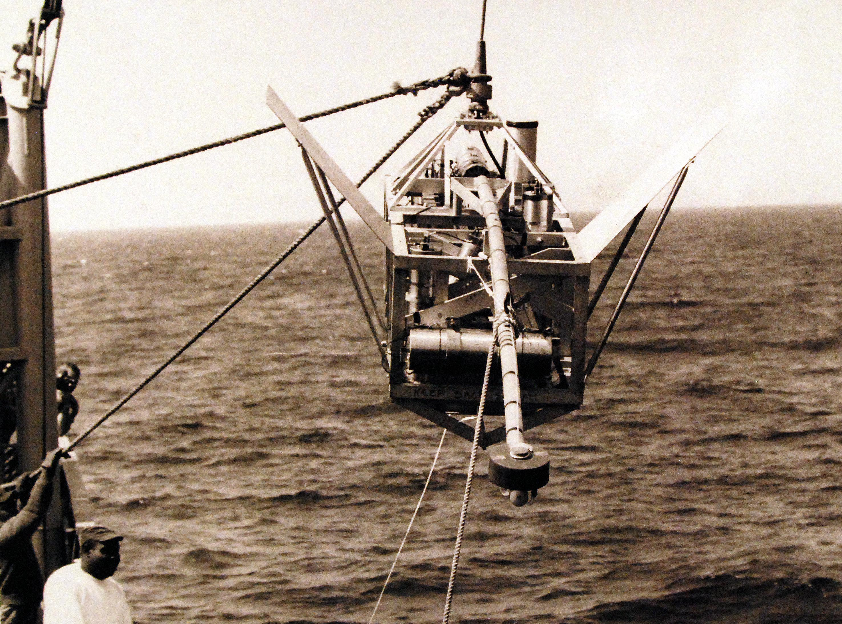 330-PSA-309-64 (USN 1104636-D): “The Fish”, an underwater camera magnetometer device, being lowered from USS Mizar (T-AGOR-11). Master caption: Despite the tragic loss, Thresher afforded the Navy an opportunity to evaluate advanced equipment and improve techniques of deep water search and inspection. Photographs were taken at a depth of more than 8,000 feet with an improved underwater camera-magnetometer device towed by USNS Mizar (T-AGOR-11) and operated from the surface by personnel of the U.S. Naval Research Laboratory. Visual inspections were conducted and photographs were taken by men aboard the Navy’s remodeled bathyscaph Trieste II. (2015/11/03).